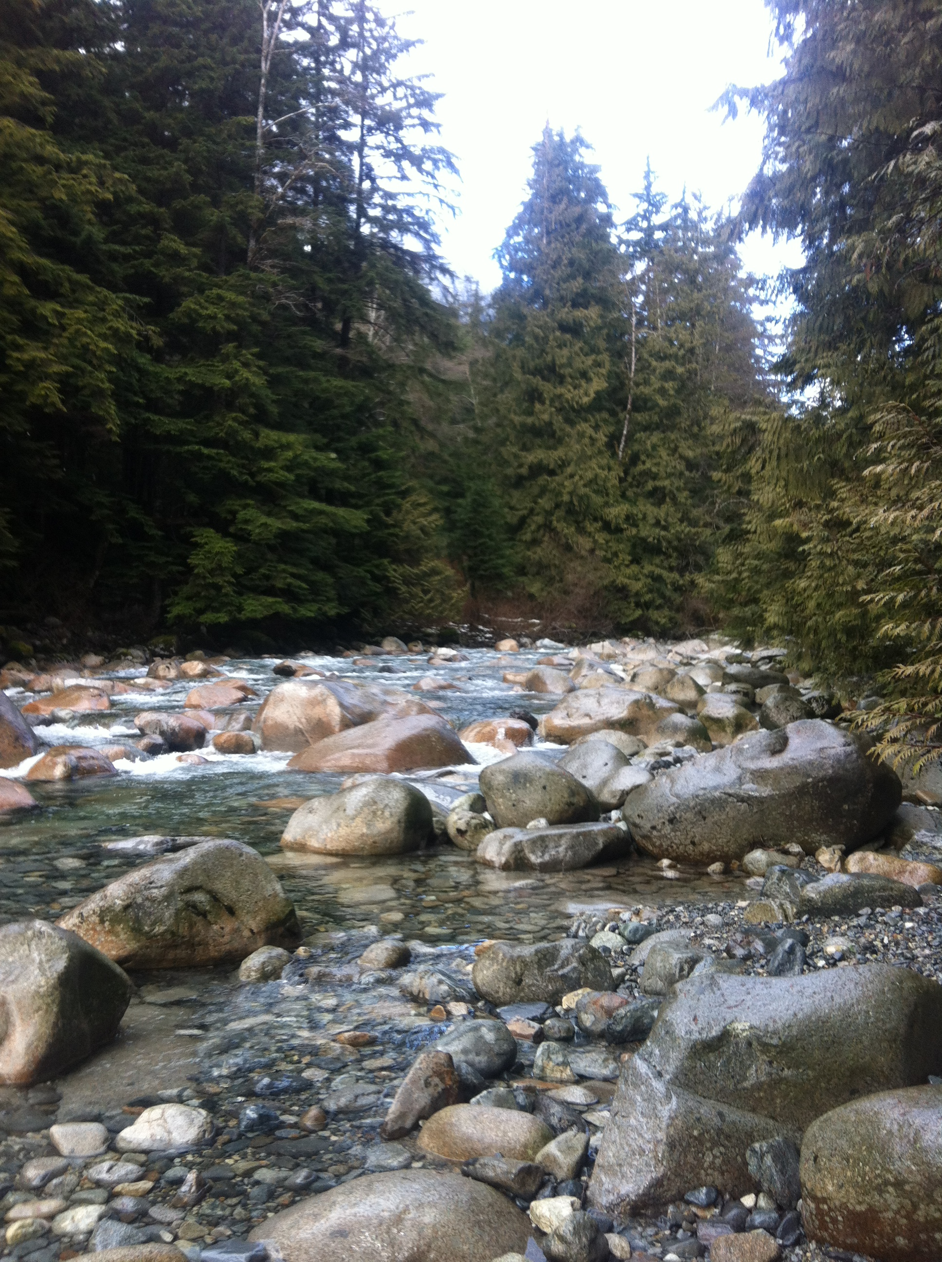 riparian zone in lynn valley